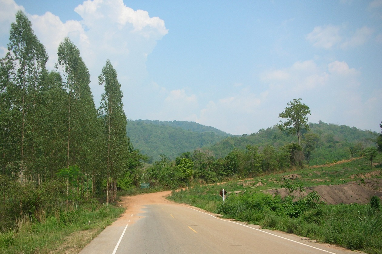 End of the paved road and tarmac road leading to Myanmar in Tambon Bong Ti, Kanchanaburi Province